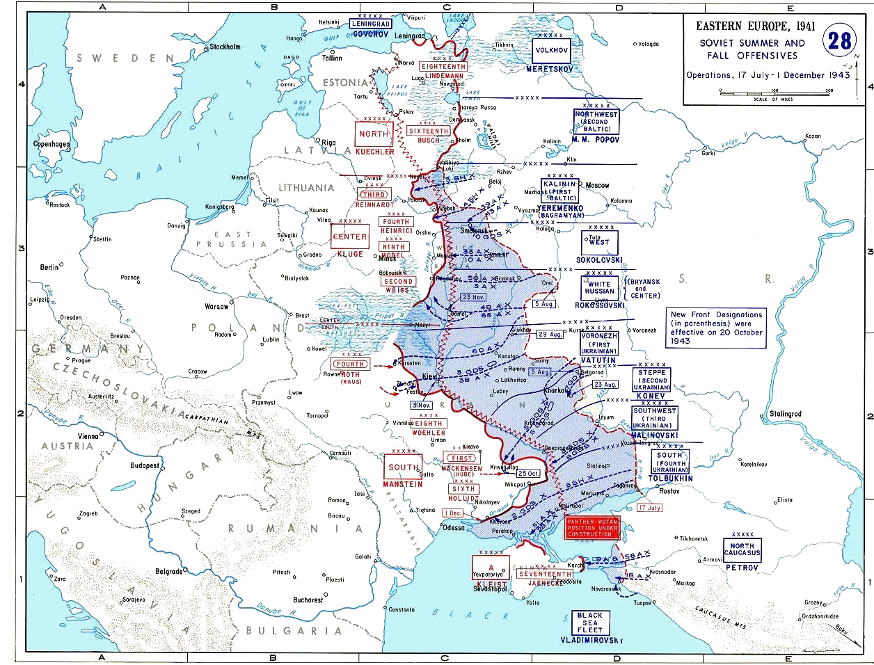 Map of the Dnieper battle and connected operations in 1943, map base from 1941